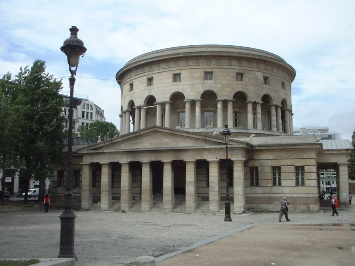 Rotonde de la Villette in the Place de Stalingrad, XIXe arrondissement, Paris, France. A toll house of the Wall of the Farmers-General, by architect Claude Nicolas Ledoux .